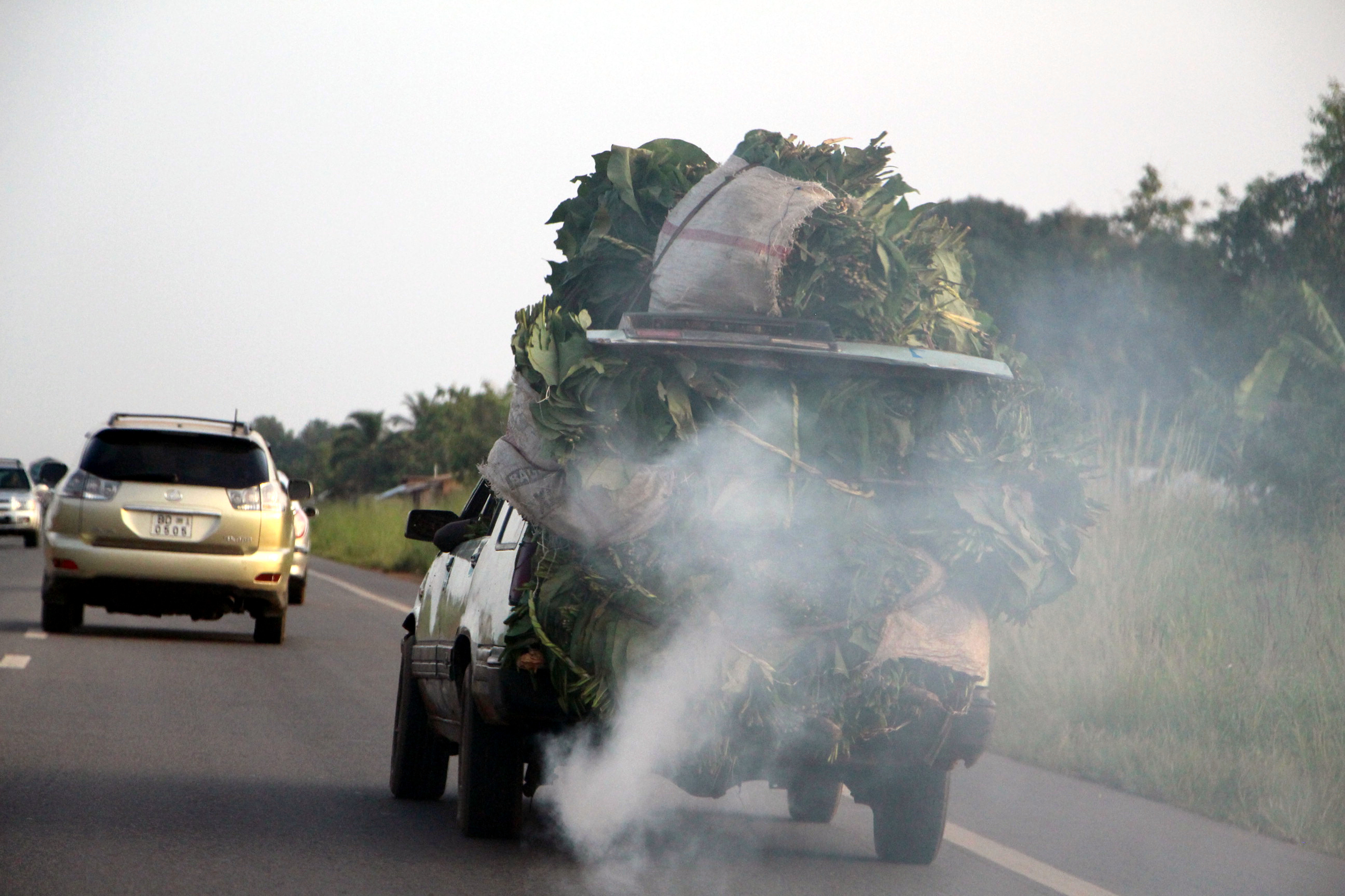 road users are forced to breathe polluted air because of the order ofrce which should censor this act of rascality This is an image with the theme "Africa on the Move or Transport" from: Benin